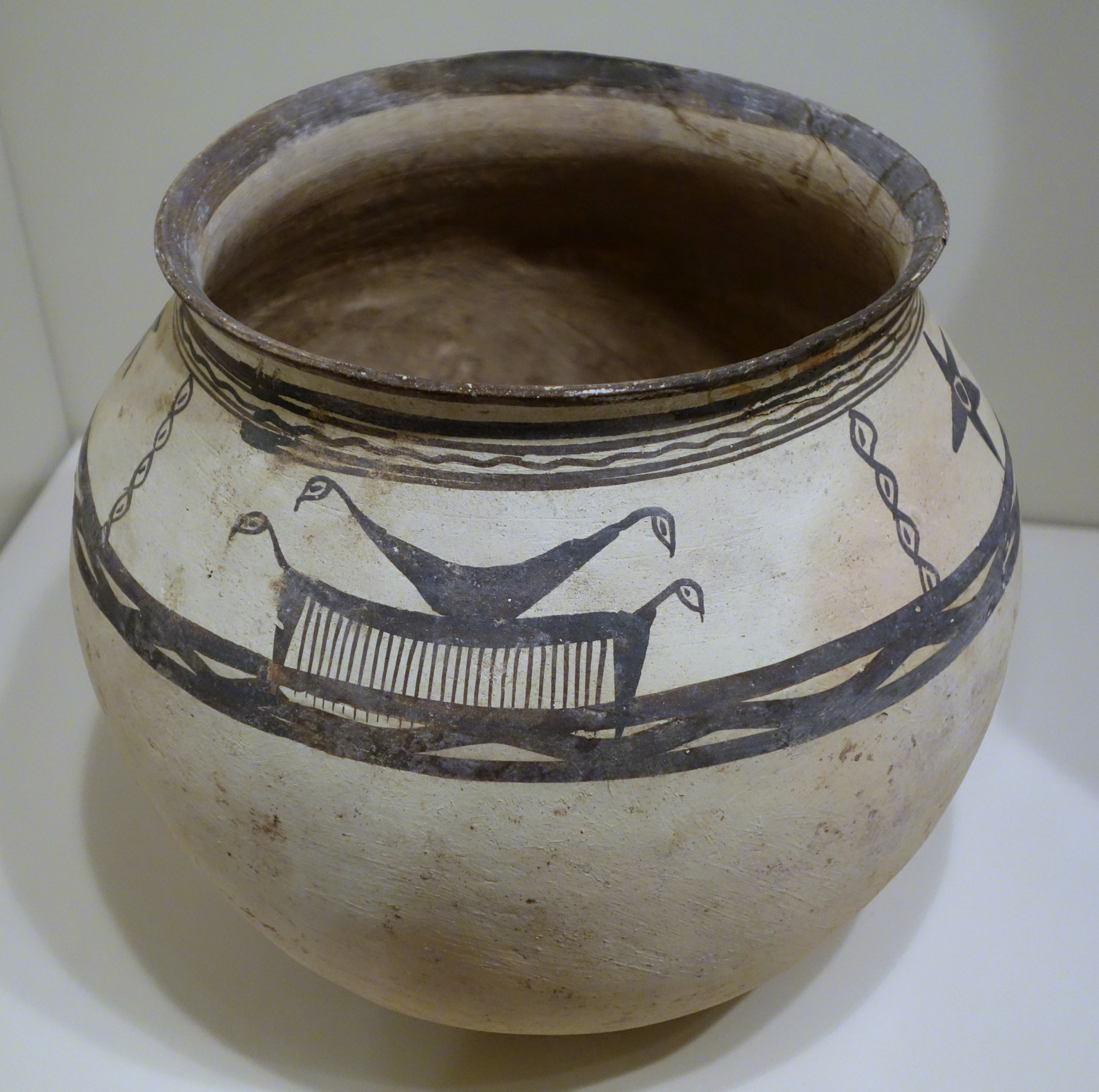 Exhibit in the Cincinnati Art Museum, Cincinnati, Ohio, USA. This artwork is in the public domain because the artist died more than 70 years ago.